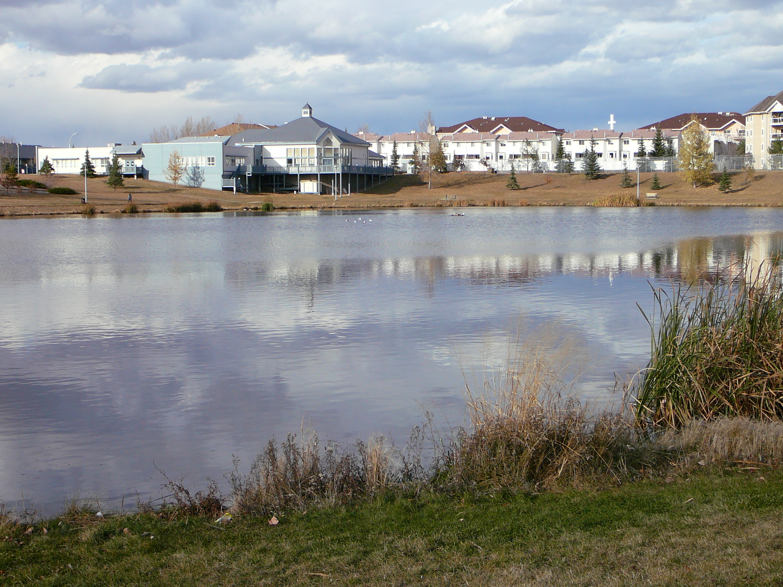 Manmade lake in the neighbourhood of Terra Losa in the city of Edmonton, Canada.